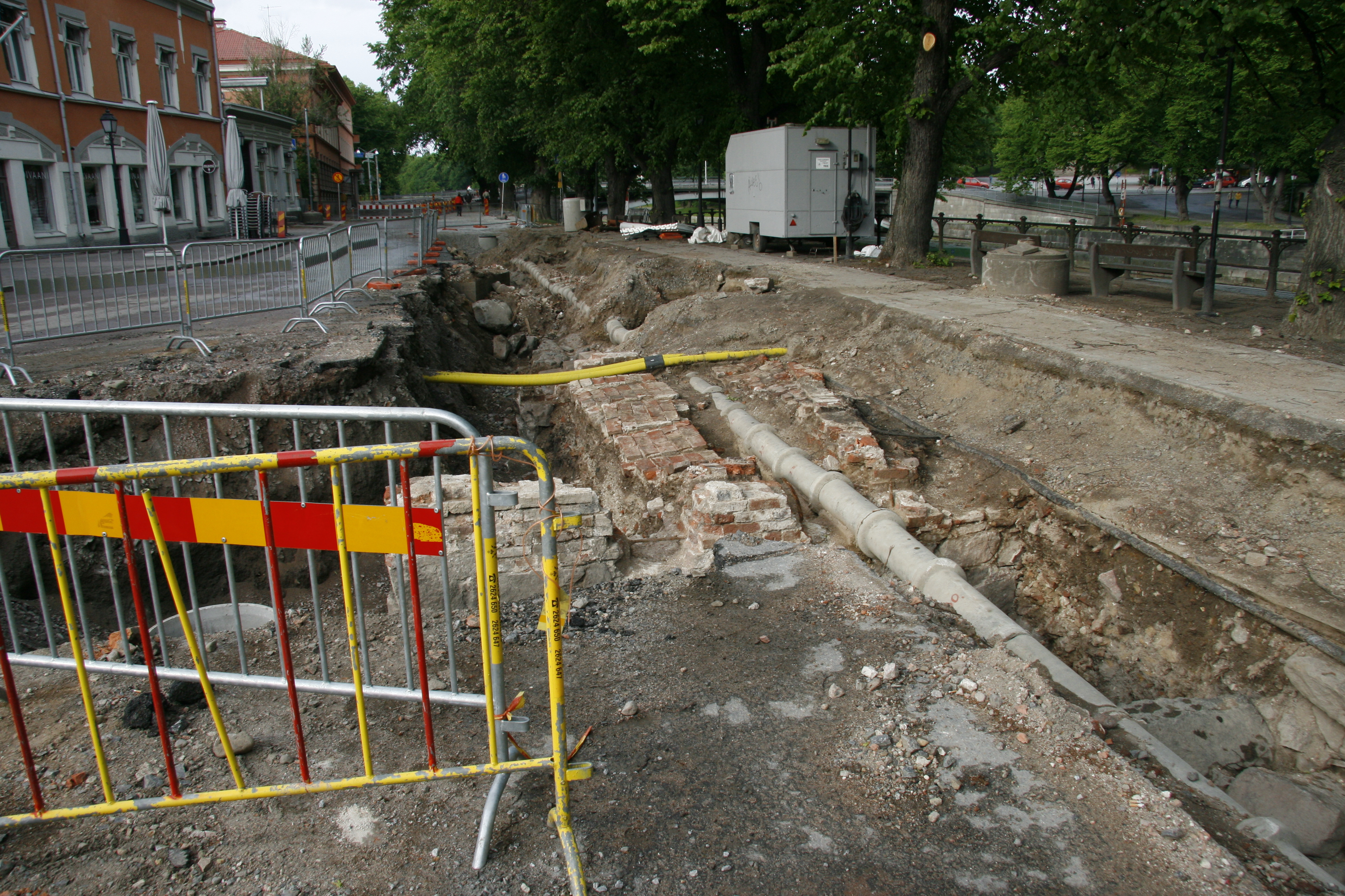 Digging which shows the remains of Aurora building near city library of Turku. Large view.